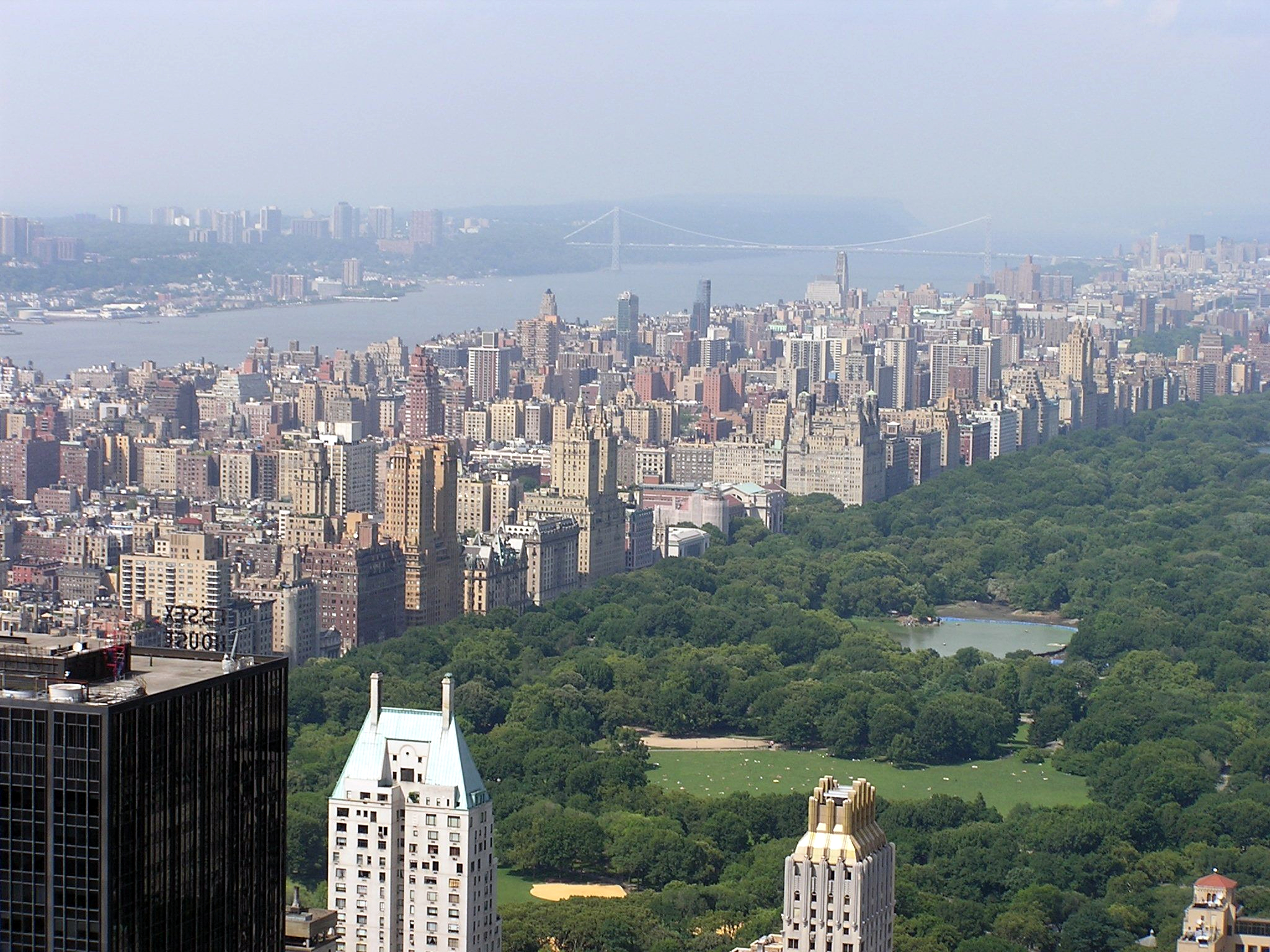 View of the Upper West Side from the Top of the Rock Observatory at Rockefeller Center.